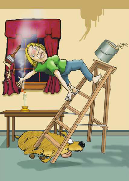 indoor accident